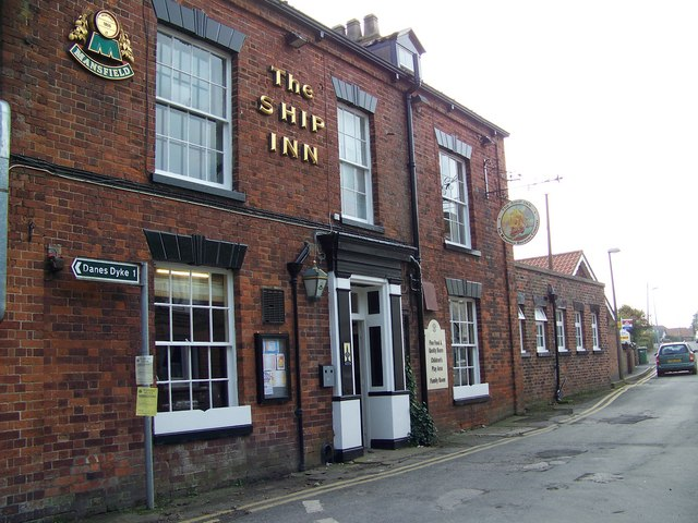 The Ship Inn, Sewerby, East Riding of Yorkshire, England.